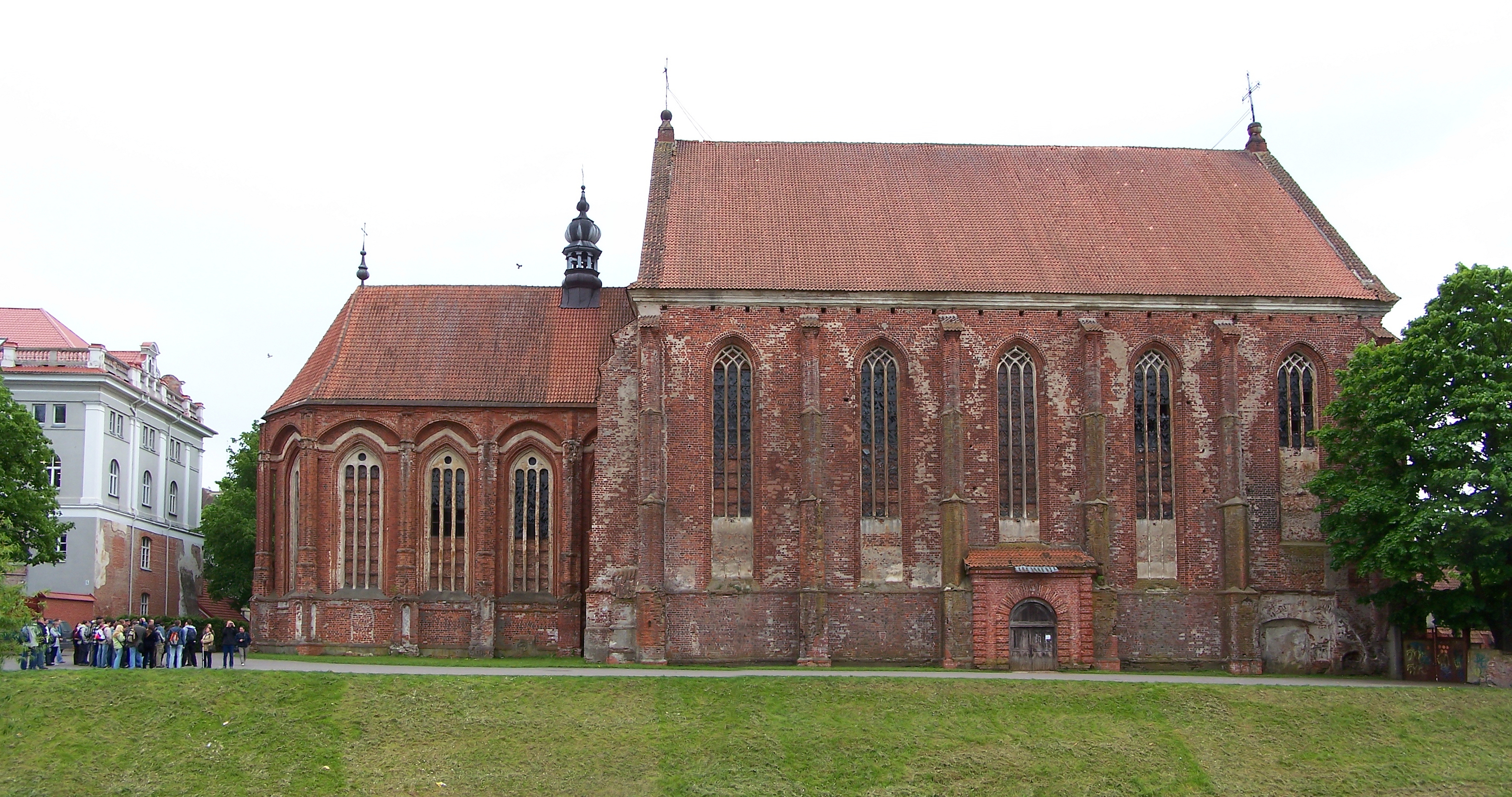 St. George church (1487) in Kaunas (Lithuania).